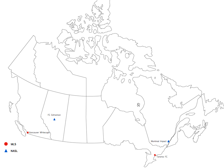 Used the map with a Royalty Free License of and made the shapes and text by myself.